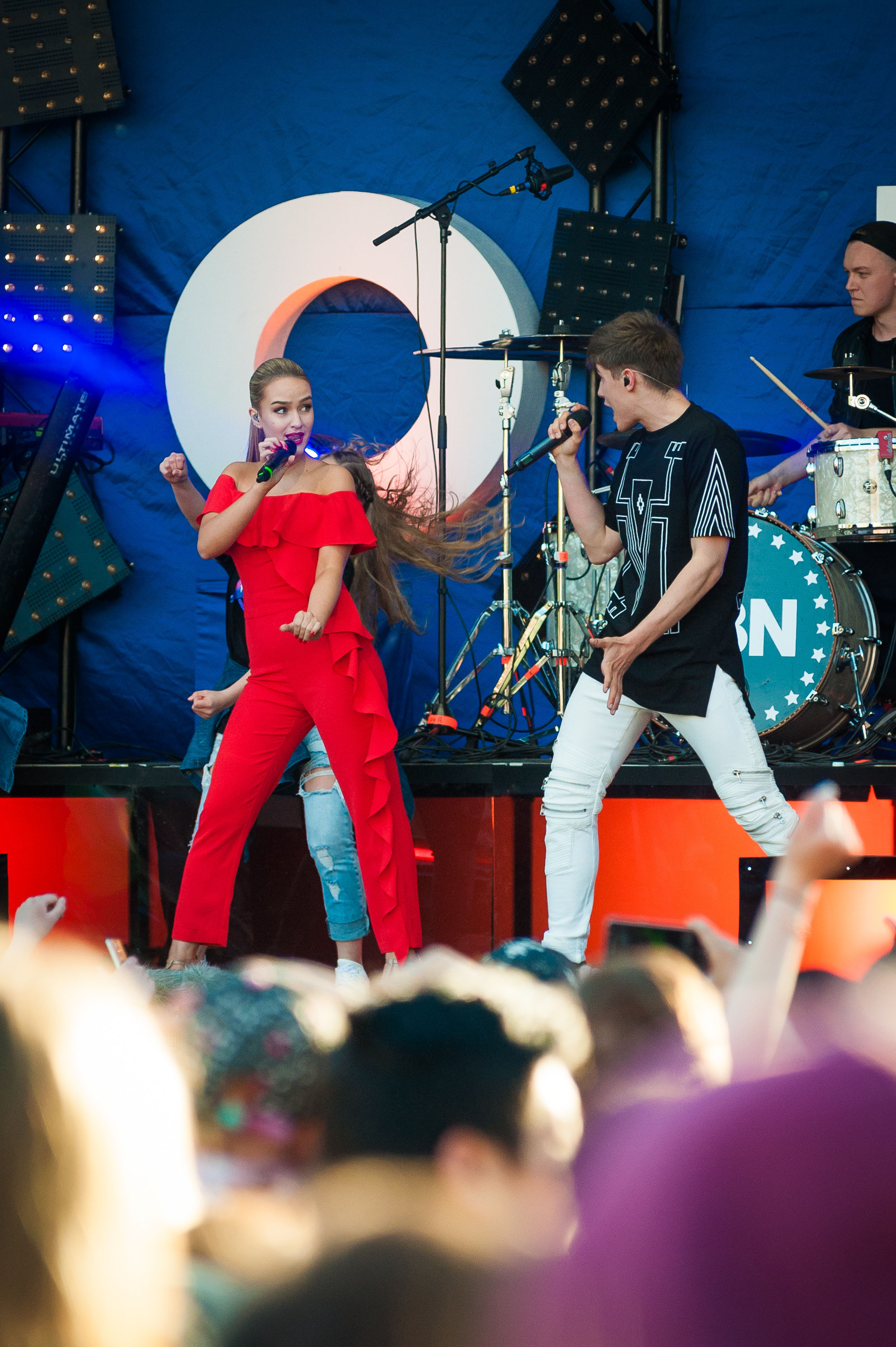 Finnish singers Nelli Matula and Robin performing their hit Hula Hula at the 2017 YleXPop festival in Lahti, Finland.